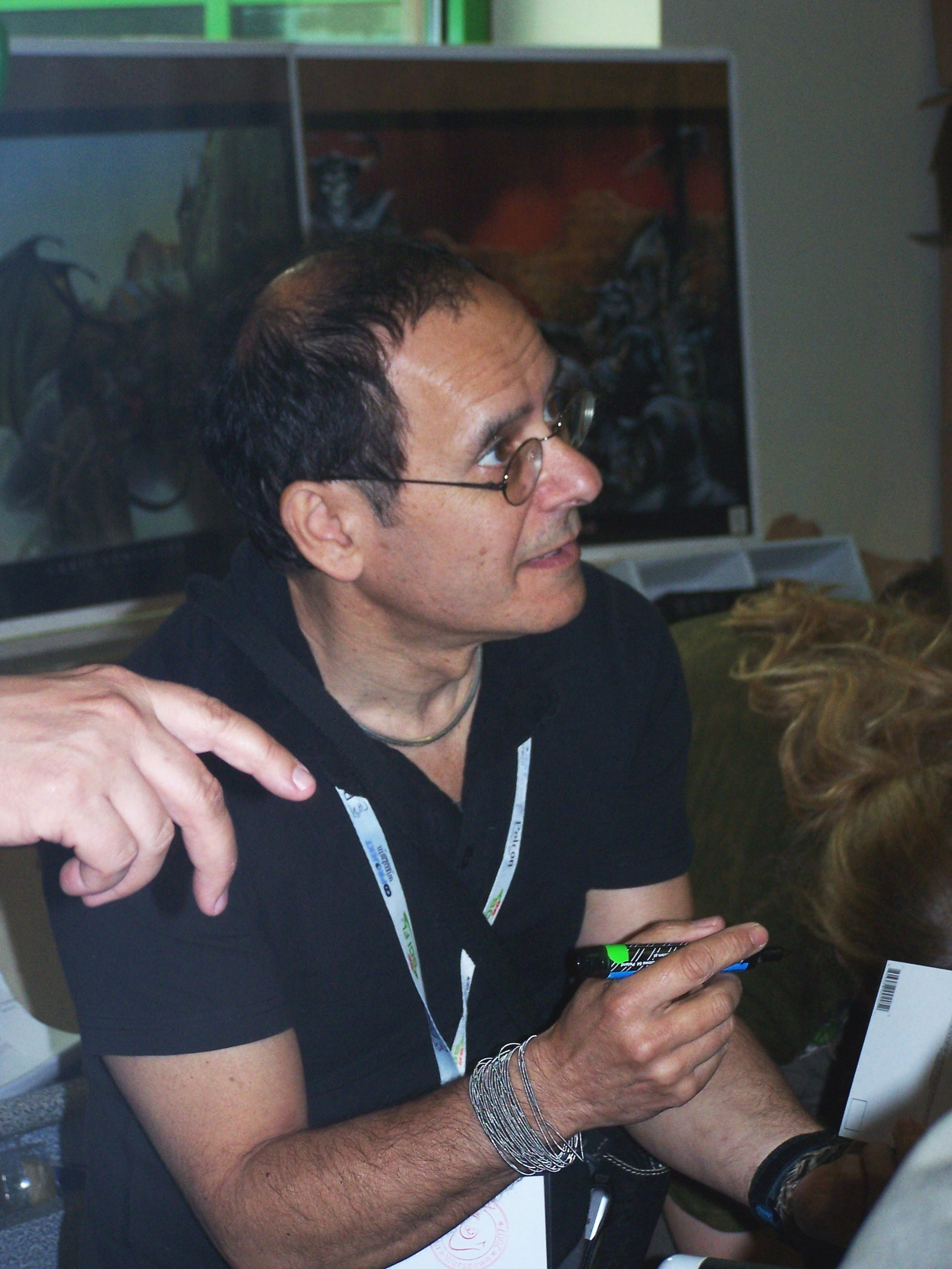 Chris Achilleos